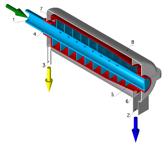 Schematic of a decanter (solid bowl) centrifuge Author : R. Castelnuovo (myself) 2005 12 12